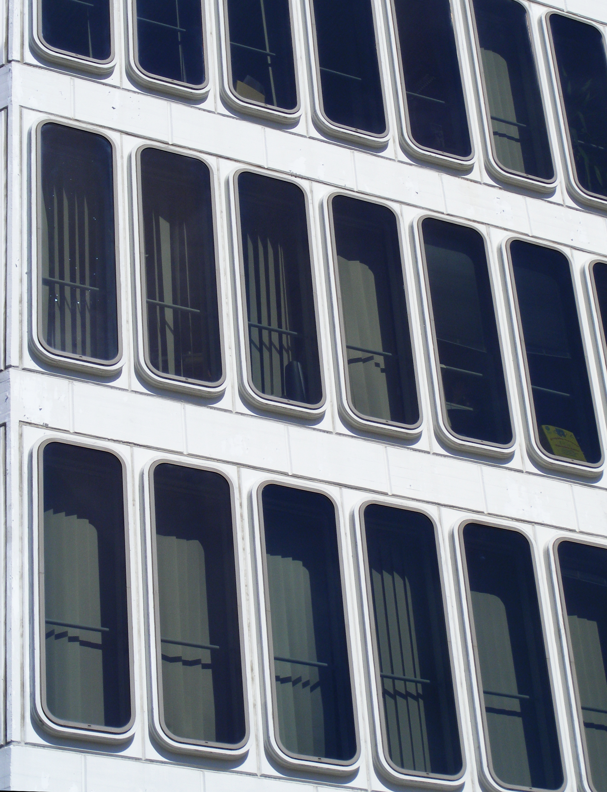 Palazzo degli Affari (Torino Chamber of Commerce's office block, Italy); designed by Mollino, Graffi, Galardi and Migliasso